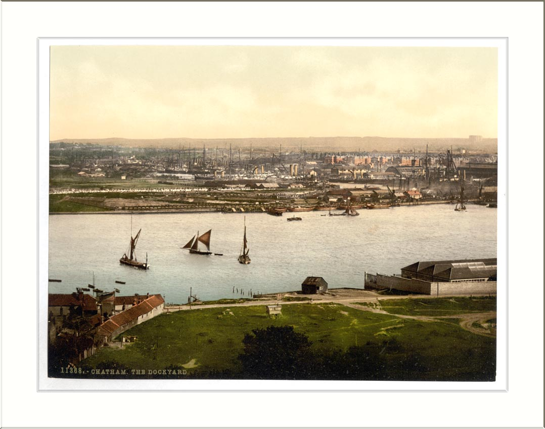 The dockyard Chatham England